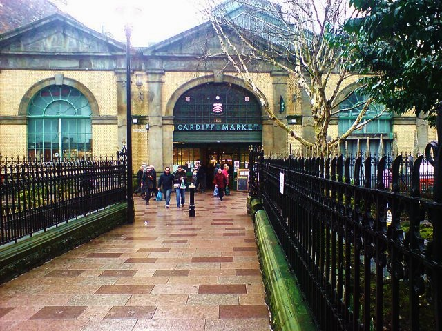 Entrance to Cardiff Market, Cardiff, Wales